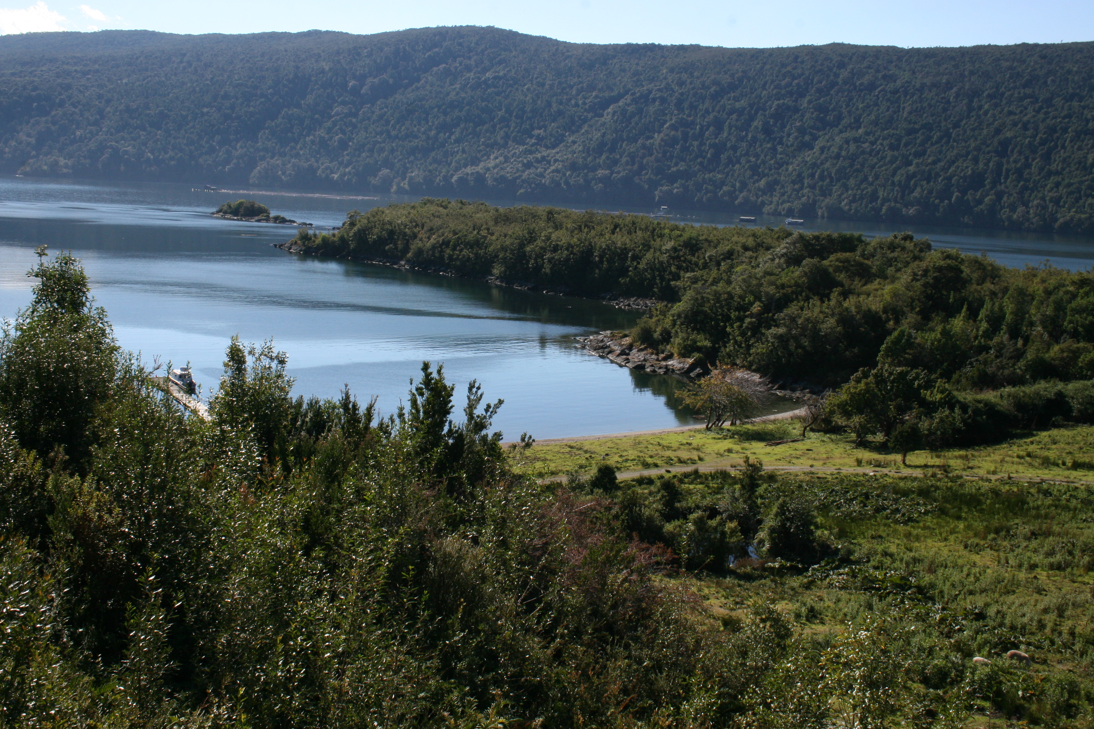 Harbor/Port of Isla San Pedro.